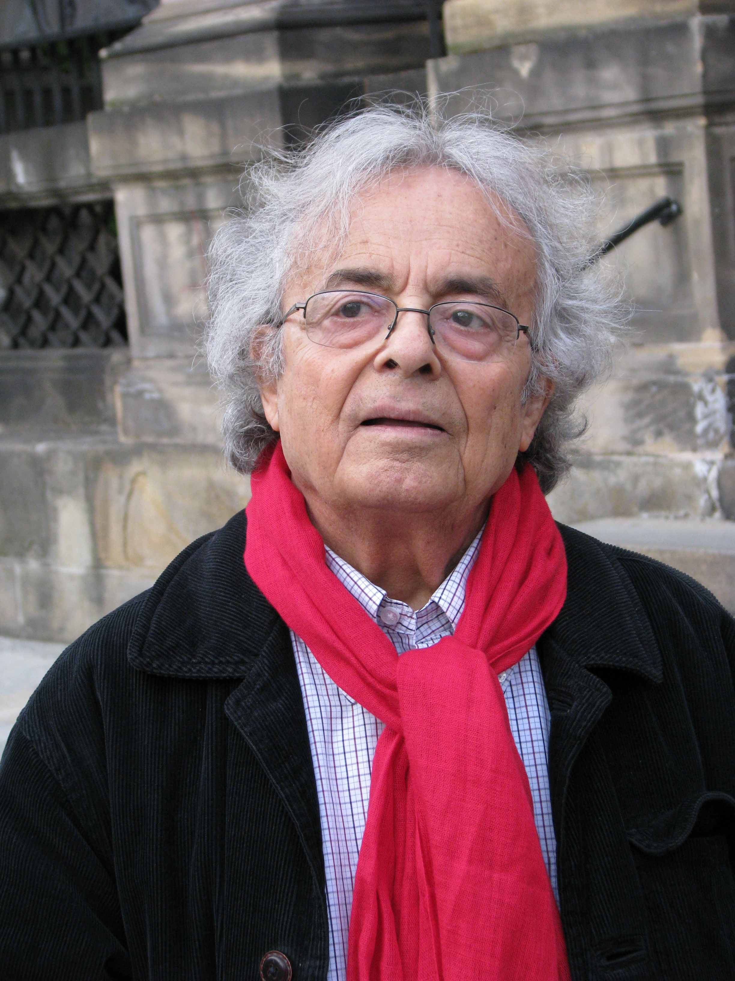 Adonis (Ali Ahmad Said Esber, born 1 January 1930), is a Syrian poet, essayist, and translator. He lives in France.